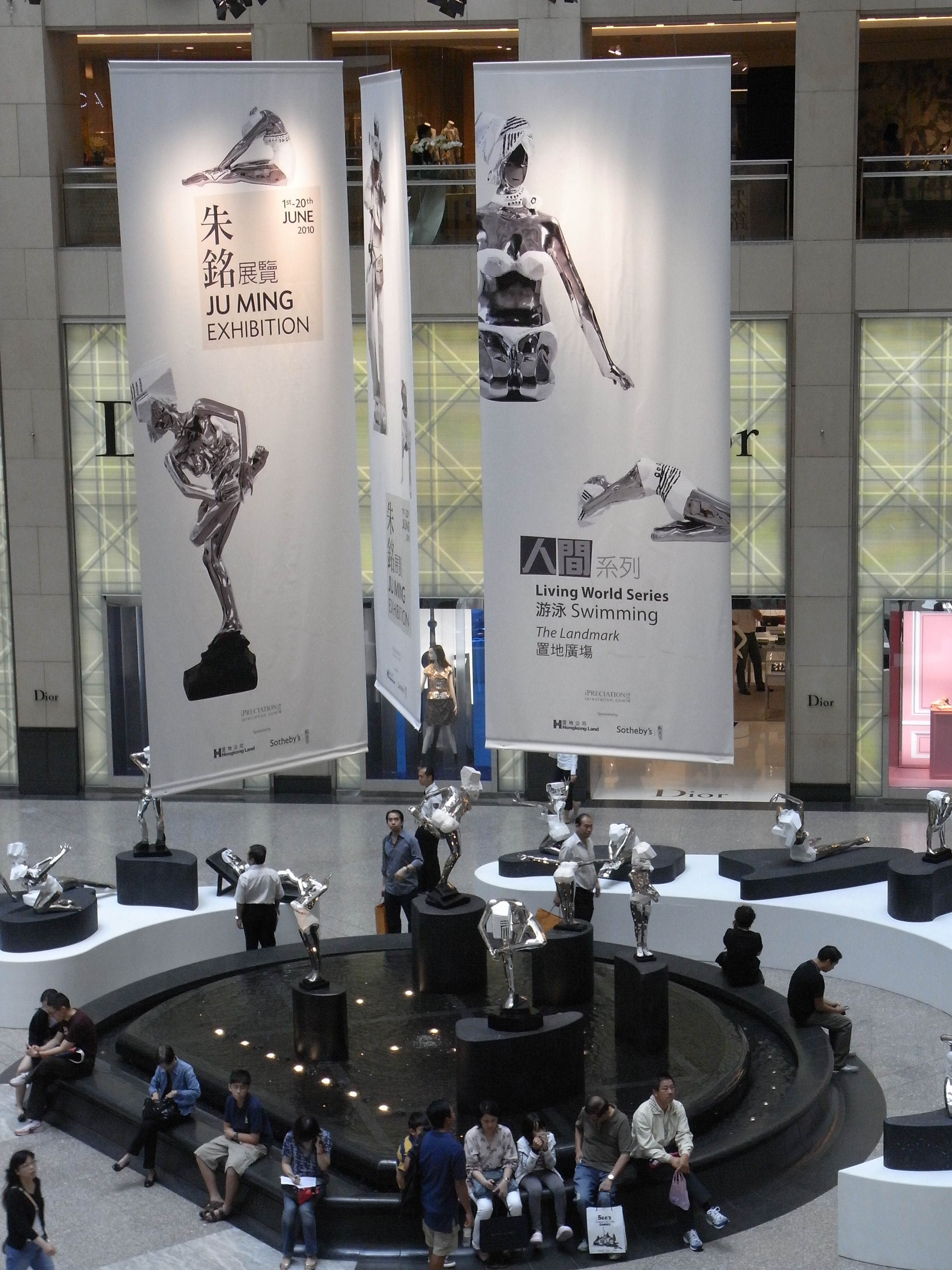 中環置地廣場 朱銘香港作品展覽 由 香港置地 & 蘇富比贊助